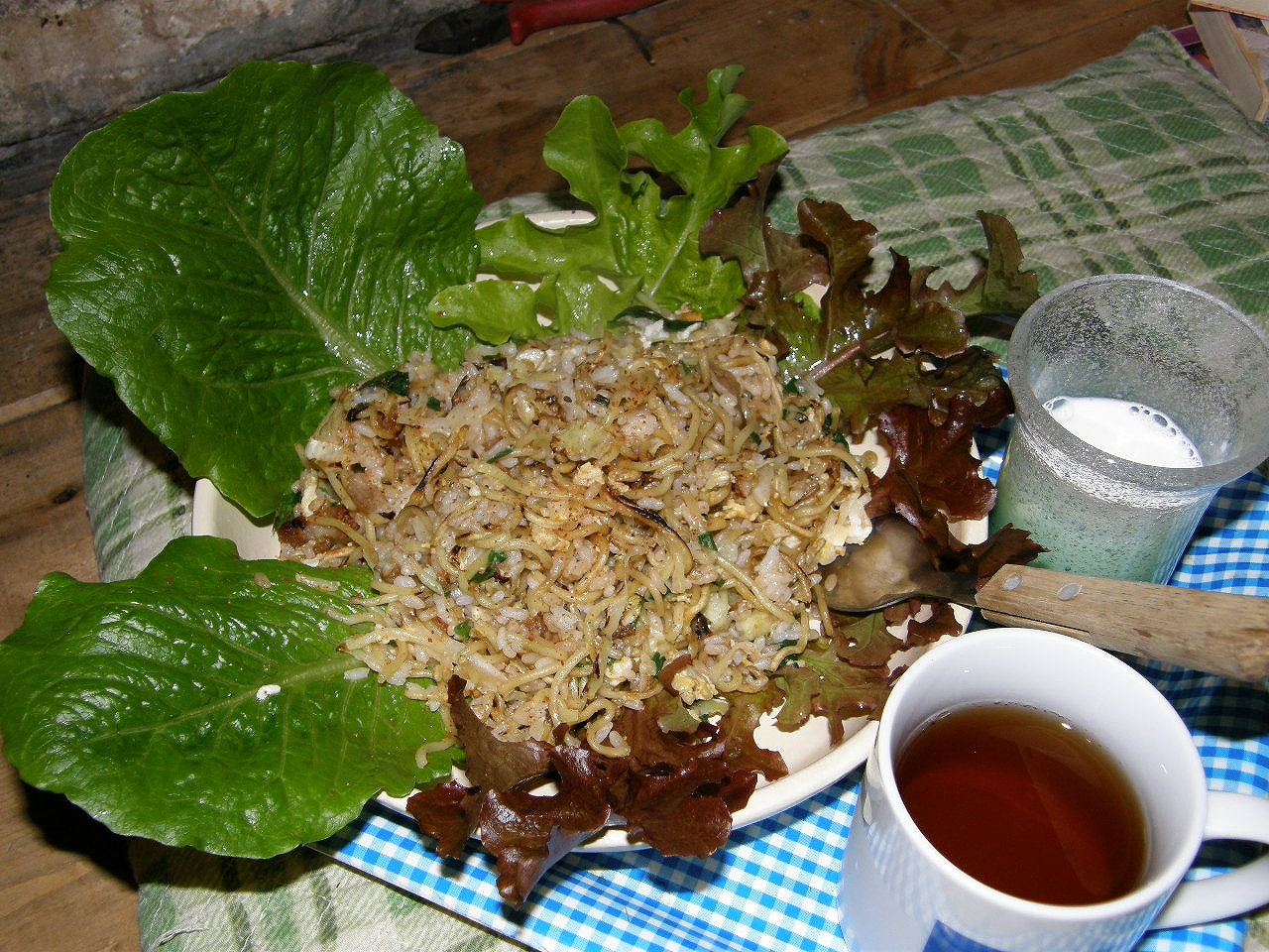 sobameshi-そば飯 2008.11.25